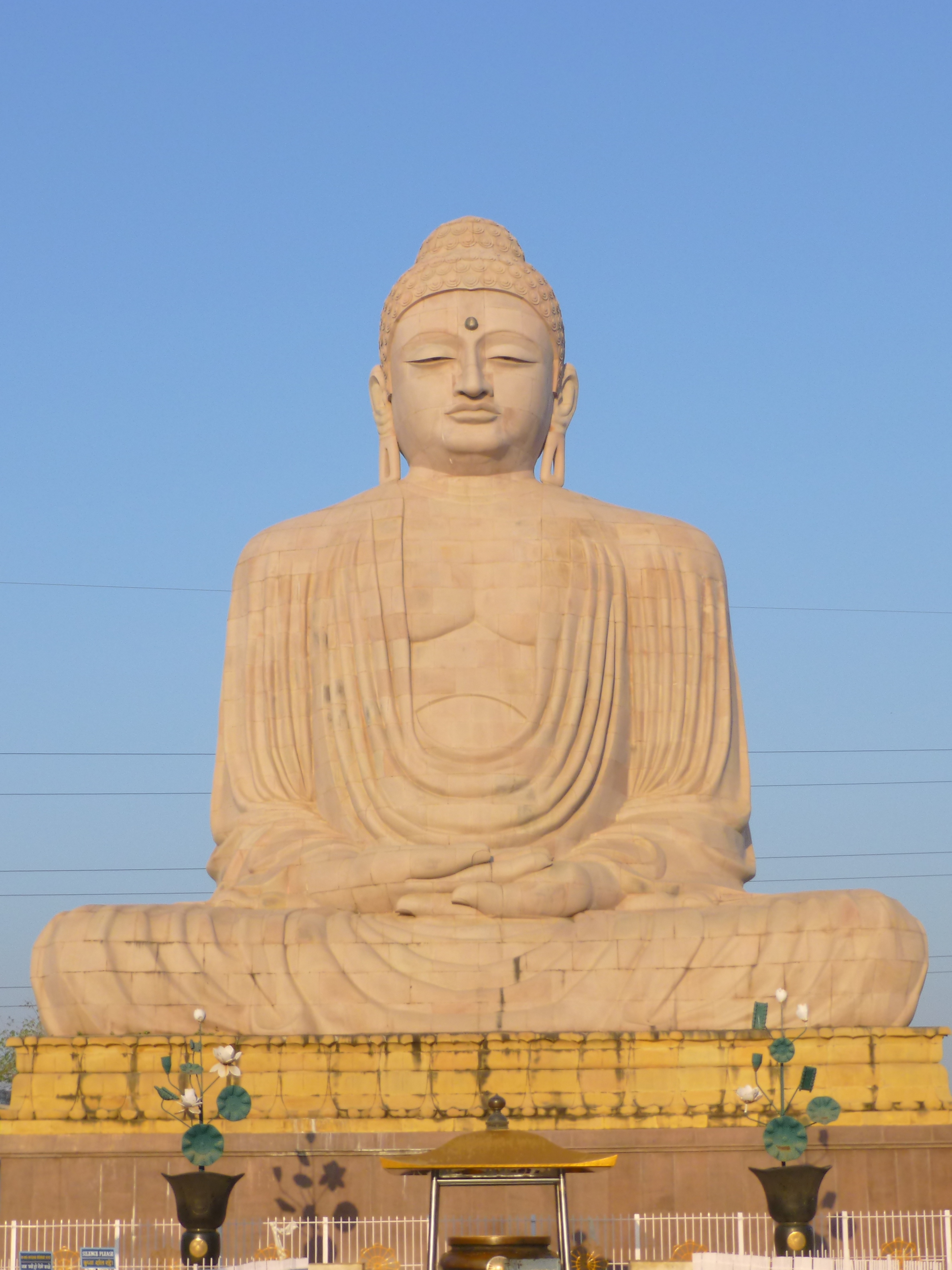 02 Front View, in Bodhgaya, Bihar Photograph of the Daibutsu Buddha statue at Bodh Gaya in Bihar taken by Anandajoti.